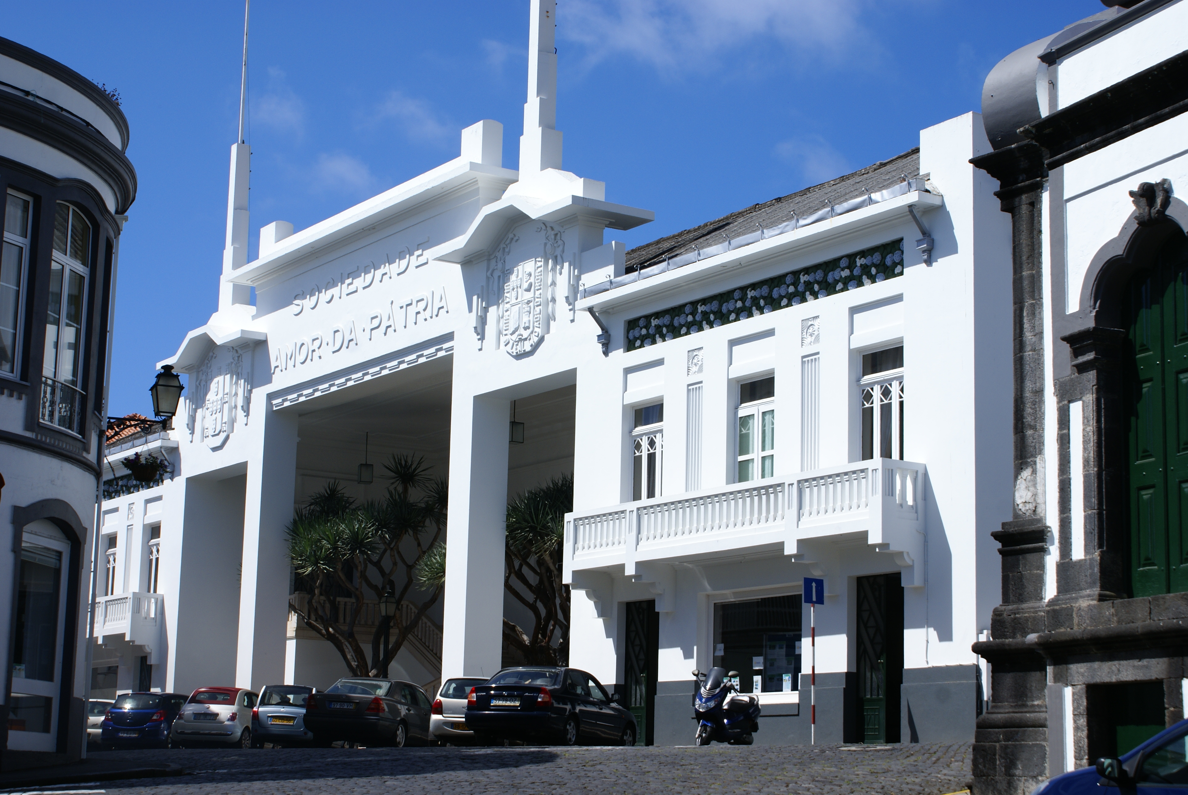 Sociedade Amor da Pátria, cidade da Horta, ilha do Faial, Açores, Portugal